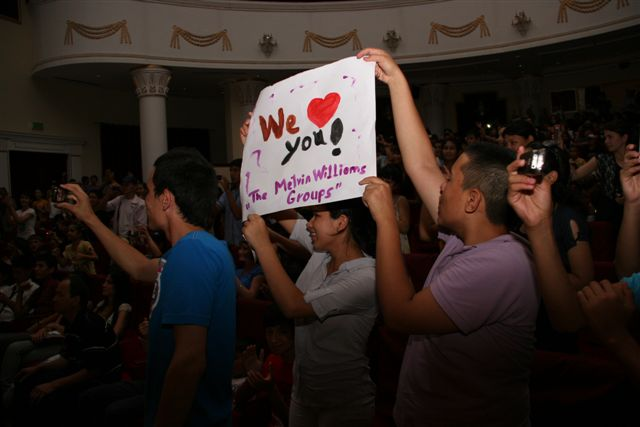 Fans hold up posters during the Melvin Williams Group's concert in Turkmenabat, Turkmenistan, on June 22, 2011. The Melvin Williams Group is visiting Turkmenistan from June 21-26, 2011, as part of the U.S. Embassy’s annual American Culture Days celebration. [State Department photo/ Public Domain]